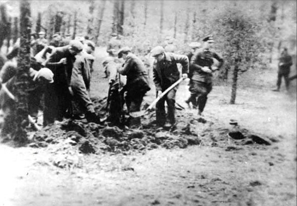 Piaśnica (Groß Piasnitz) in the Darzlubska Wilderness - place of the one of the greatest nazi crimes in Polish Pomerania. Members of so-called "Volksdeutscher Selbstschutz" are digging the mass graves for Polish convicts who will be executed in the next few minutes. The picture was taken by Waldemar Engler - volksdeutscher from Wejherowo and member of the SS (he was photographer in civilian life) Prints of photos that he made in Piaśnica were stolen by his Polish workers.